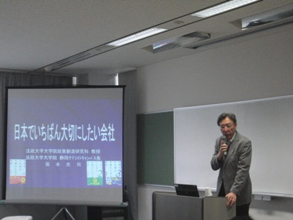 Kōji Sakamoto, Professor of the Graduate School of Regional Policy Design, Hosei University, gave a lecture at Tokyo Small and Medium Enterprises University in Higashiyamato City, Tōkyō Metropolis on August 2, 2013.